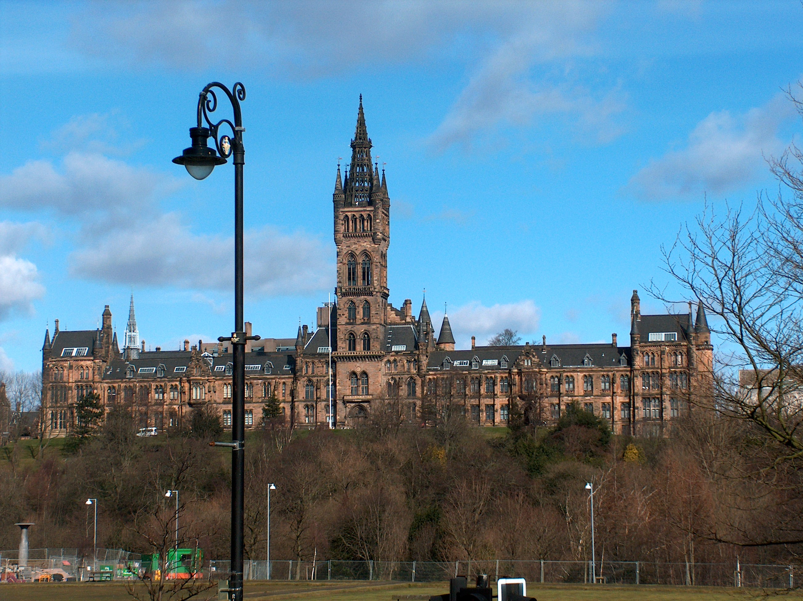 The Main Building from Kelvingrove Art Gallery.